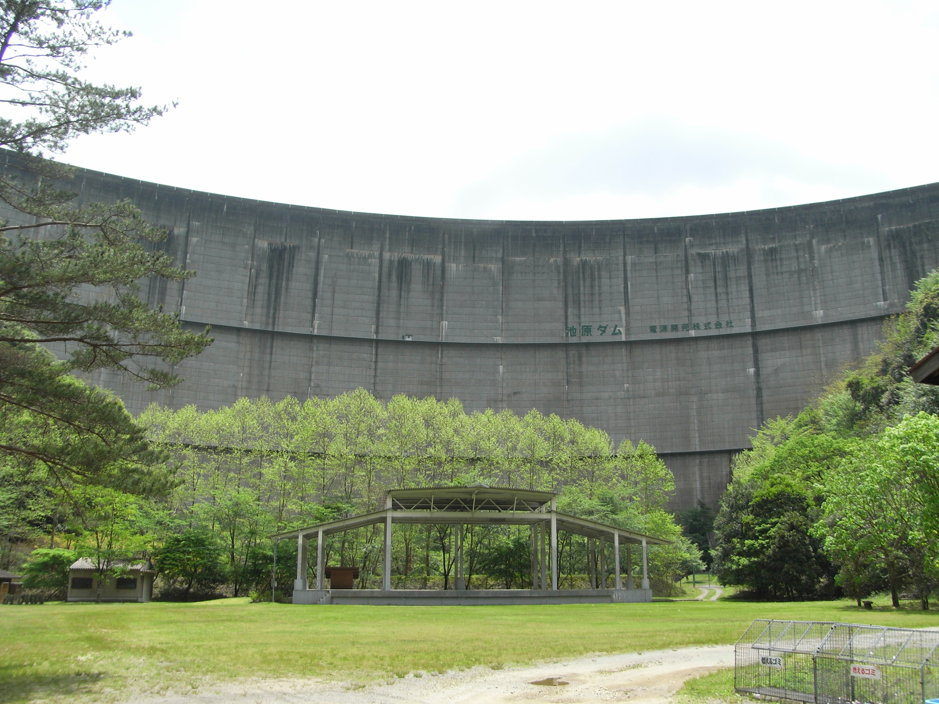 Ikehara Dam(EPDC/Kitayamagawa river/Nara Pref./Japan)